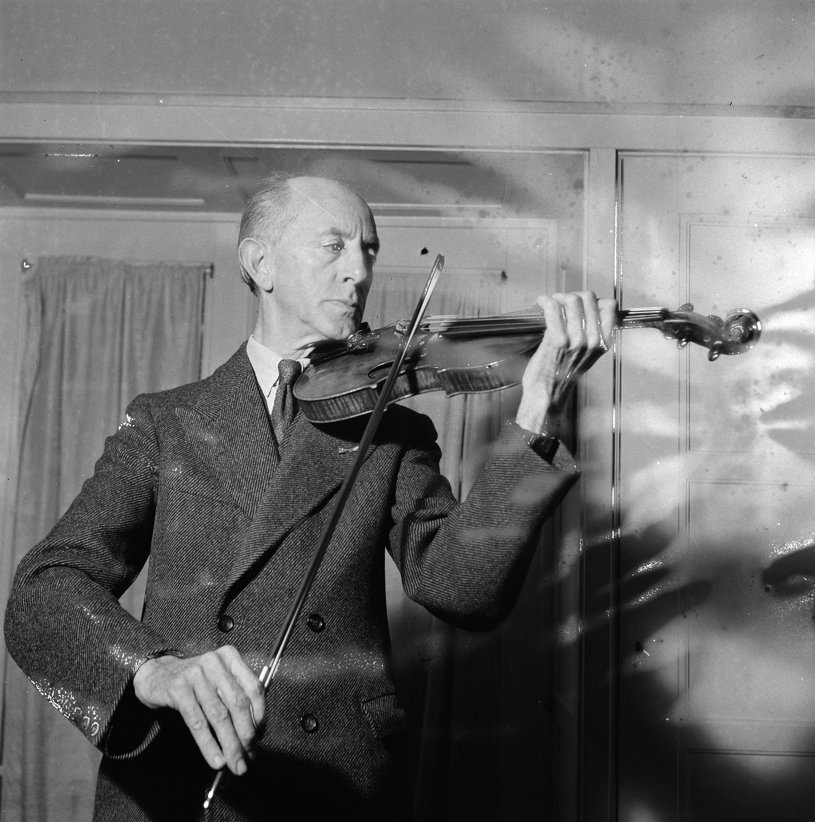 Dutch violinist Ferdinand Helmann (Concertgebouw Orchestra). Photograph by Charles Breijer, 18 Dec. 1945